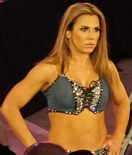 NOLA 2018 - WWE RAW - Ember Moon&Nia Jax Vs Alexa Bliss&Mickie JamesEmber Moon&Nia Jax def. (pin) Alexa Bliss&Mickie James (in 03:02)Beginning of Ember Moon at Raw( Deux semaines a Nola pour la ville et pour WWE Wrestlemania XXXIVTwo weeks Nola for the city and for WWE Wrestlemania XXXIV )